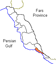 Kangan County in Map of Bushehr Province of Iran.